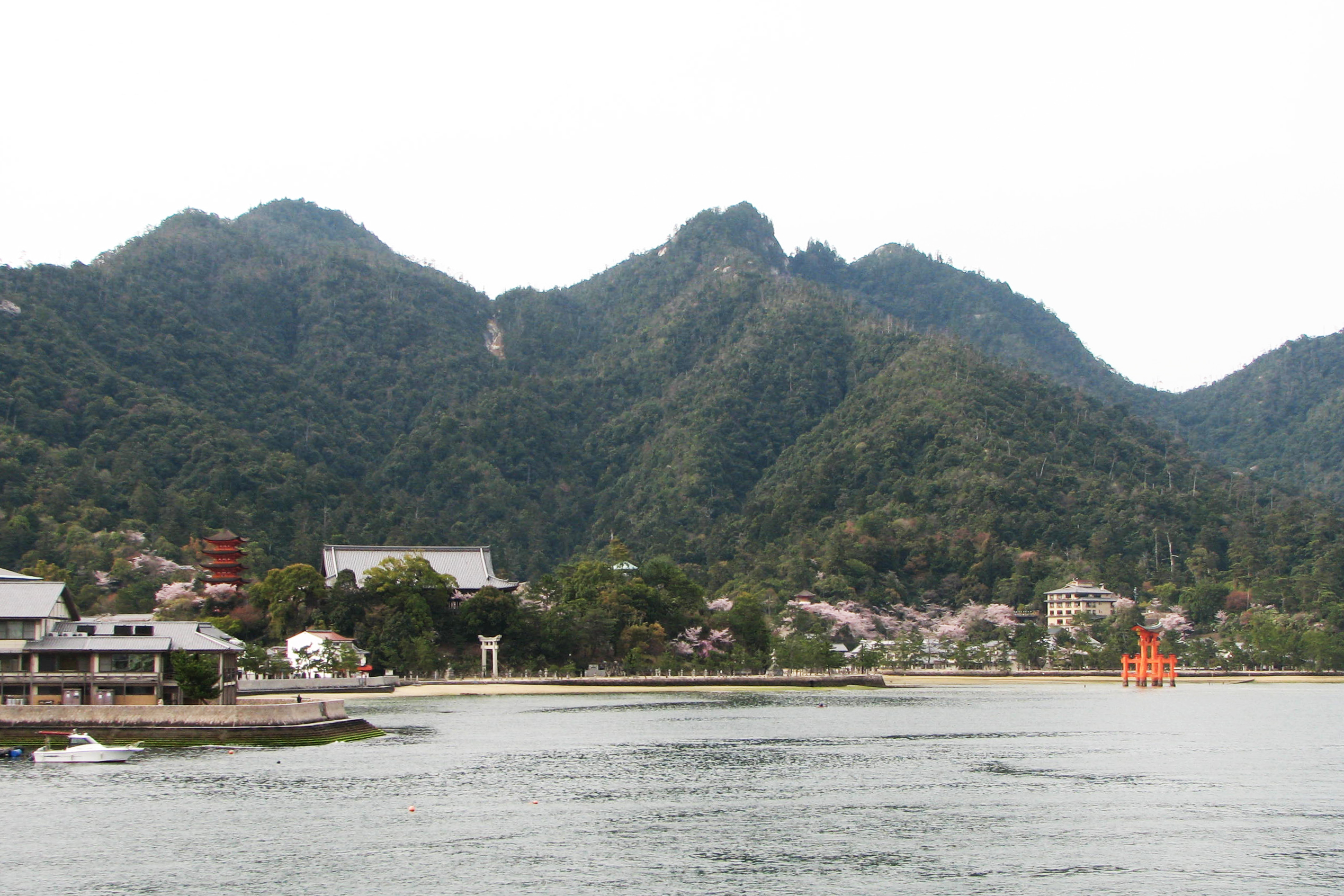 Miyajima Island, Hiroshima Prefecture, Japan